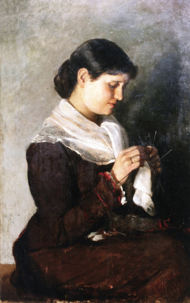 painting by Marianne von Werefkin